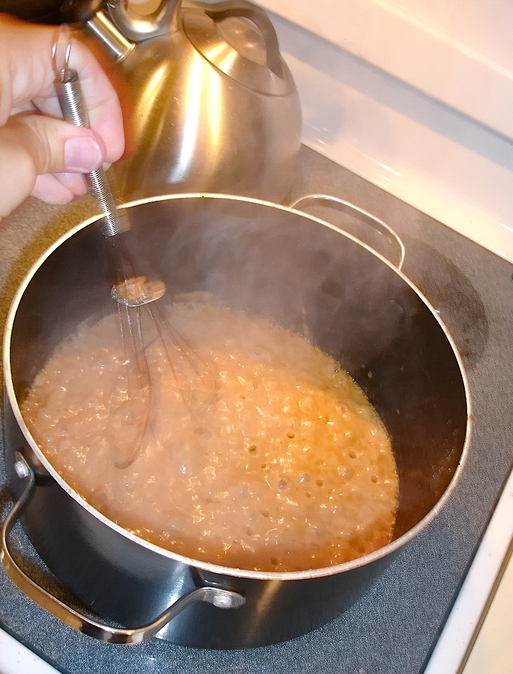 A gravy, thickening after flour; butter and cream were also added to a mixture of wine and drippings. The process occurs through denaturation (biochemistry).